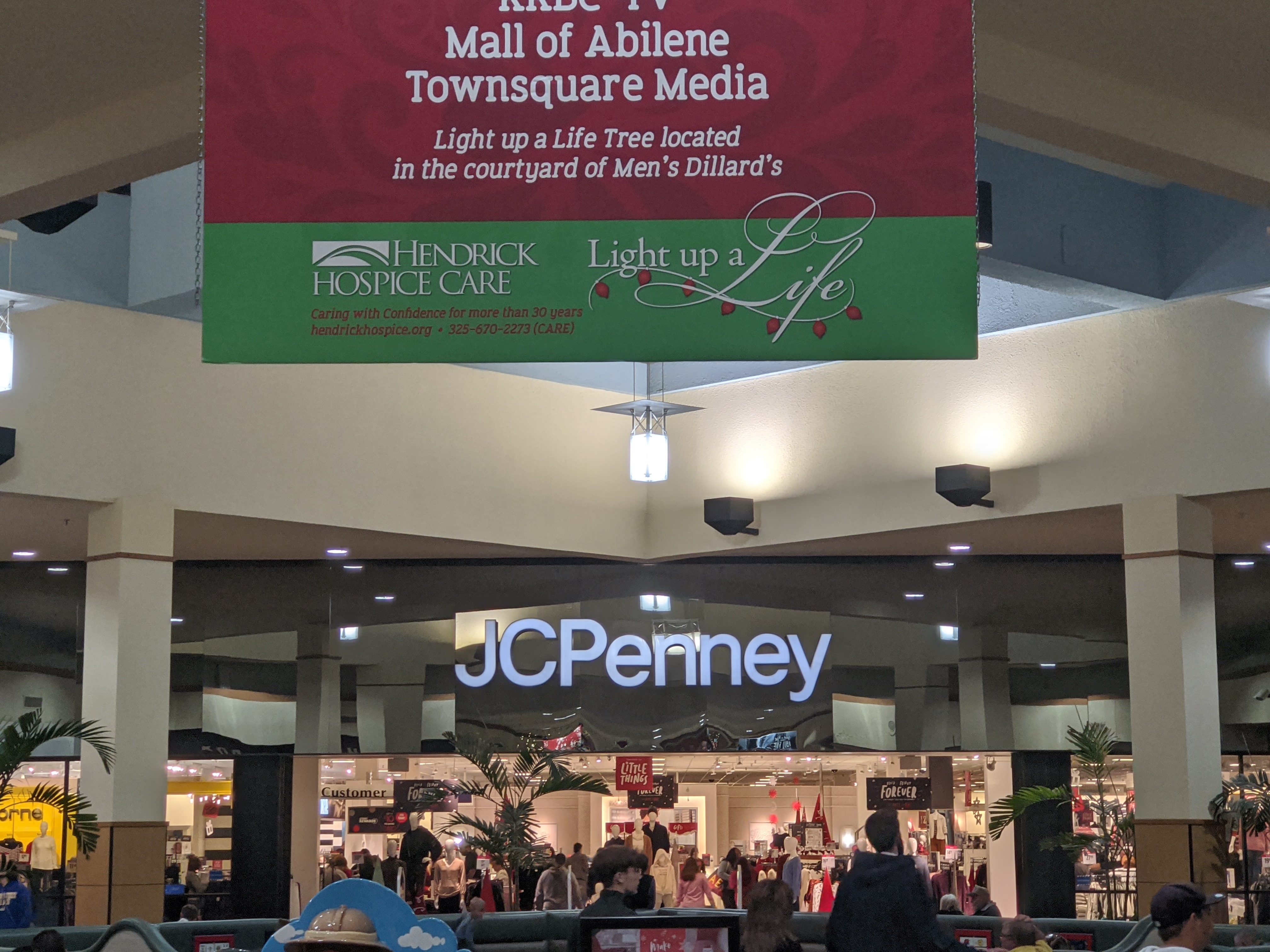 Charter Tenant JCPenney